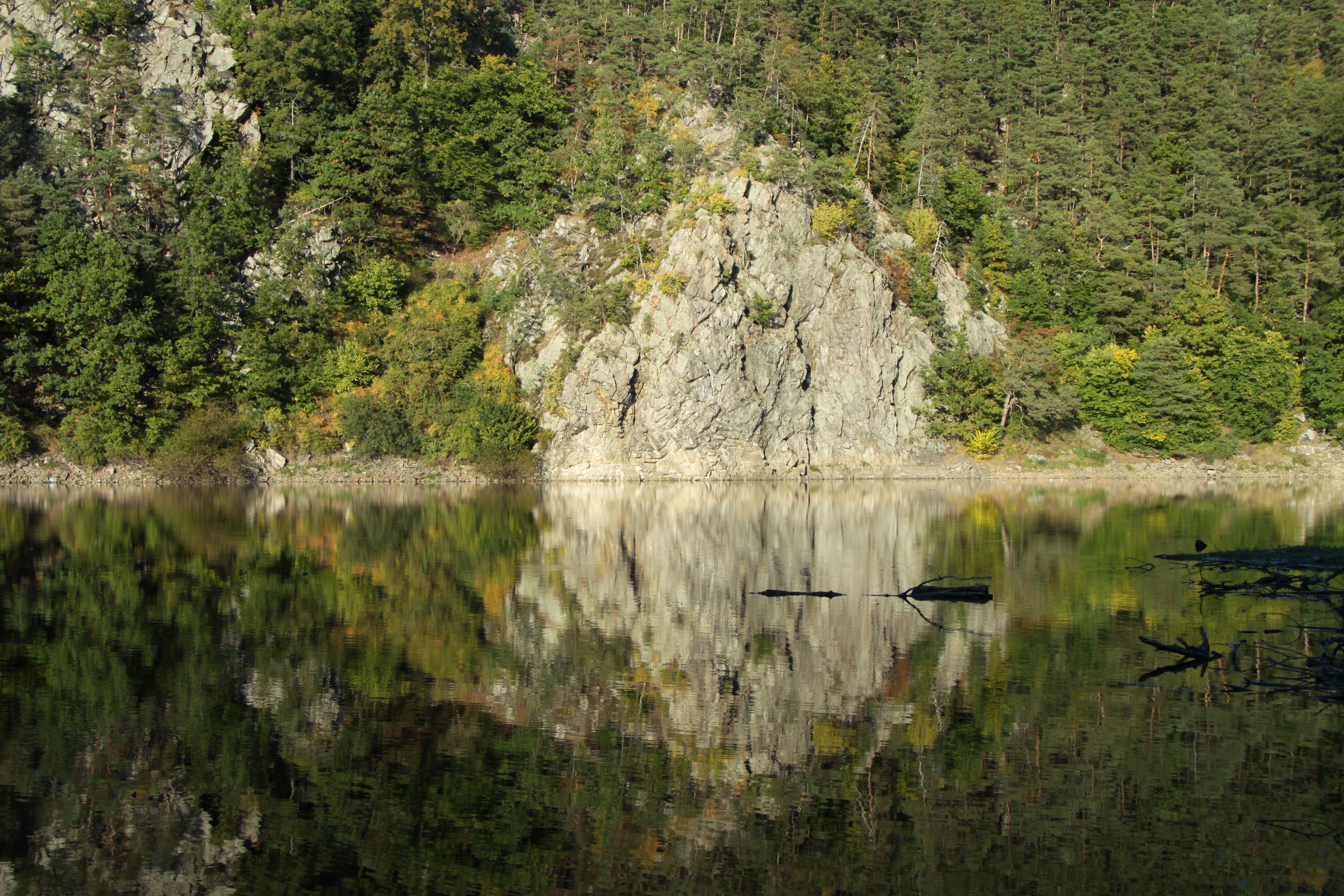 Natural reservation Výří skály u Oslova, Písek District, Czech Republic